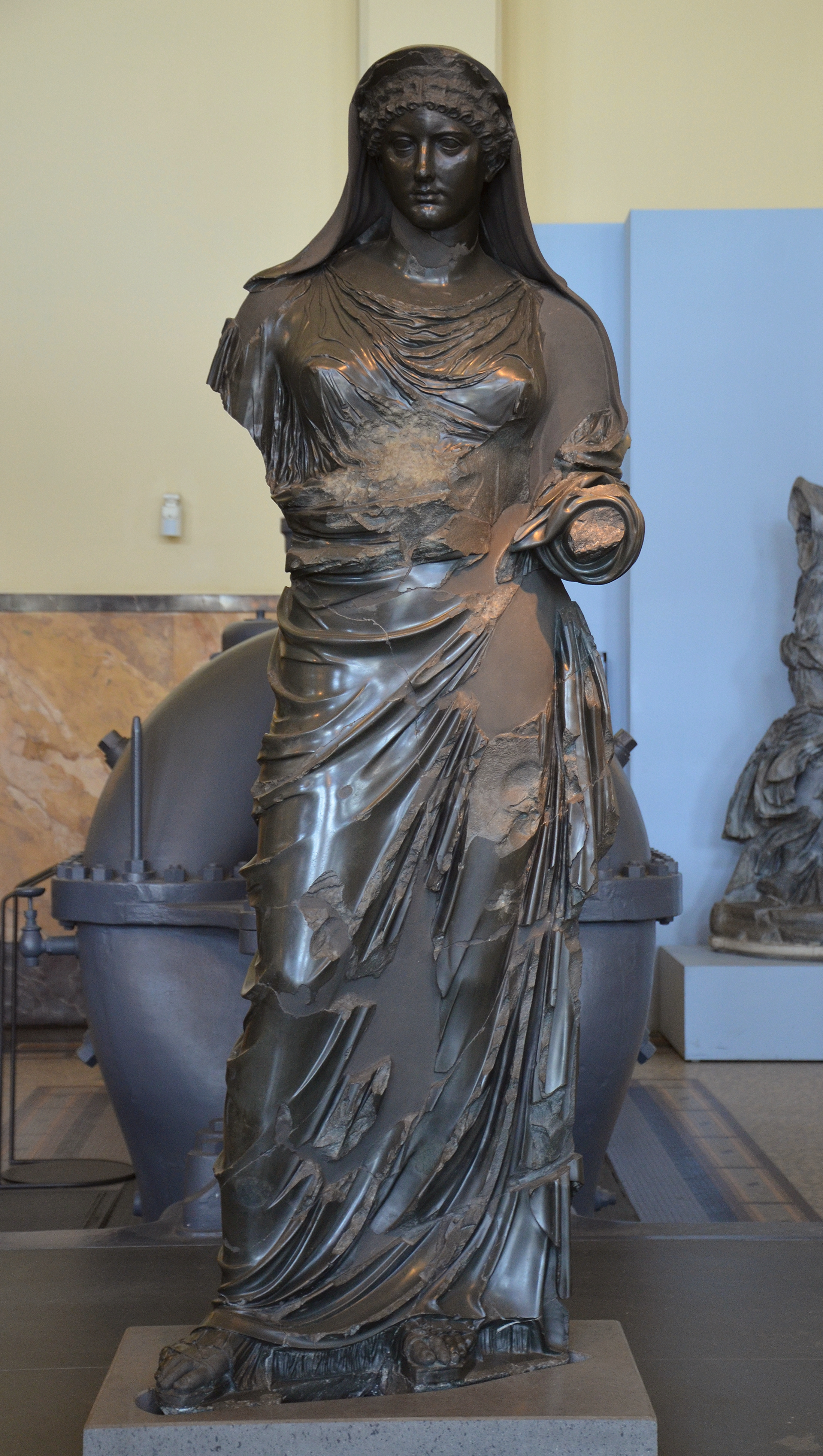 Basanite statue of Agrippina the Younger depicted as a priestess, discovered during the excavations in 1885 of the military hospital that was build over the villa Casali, 54-59 AD, Centrale Montemartini, Rome